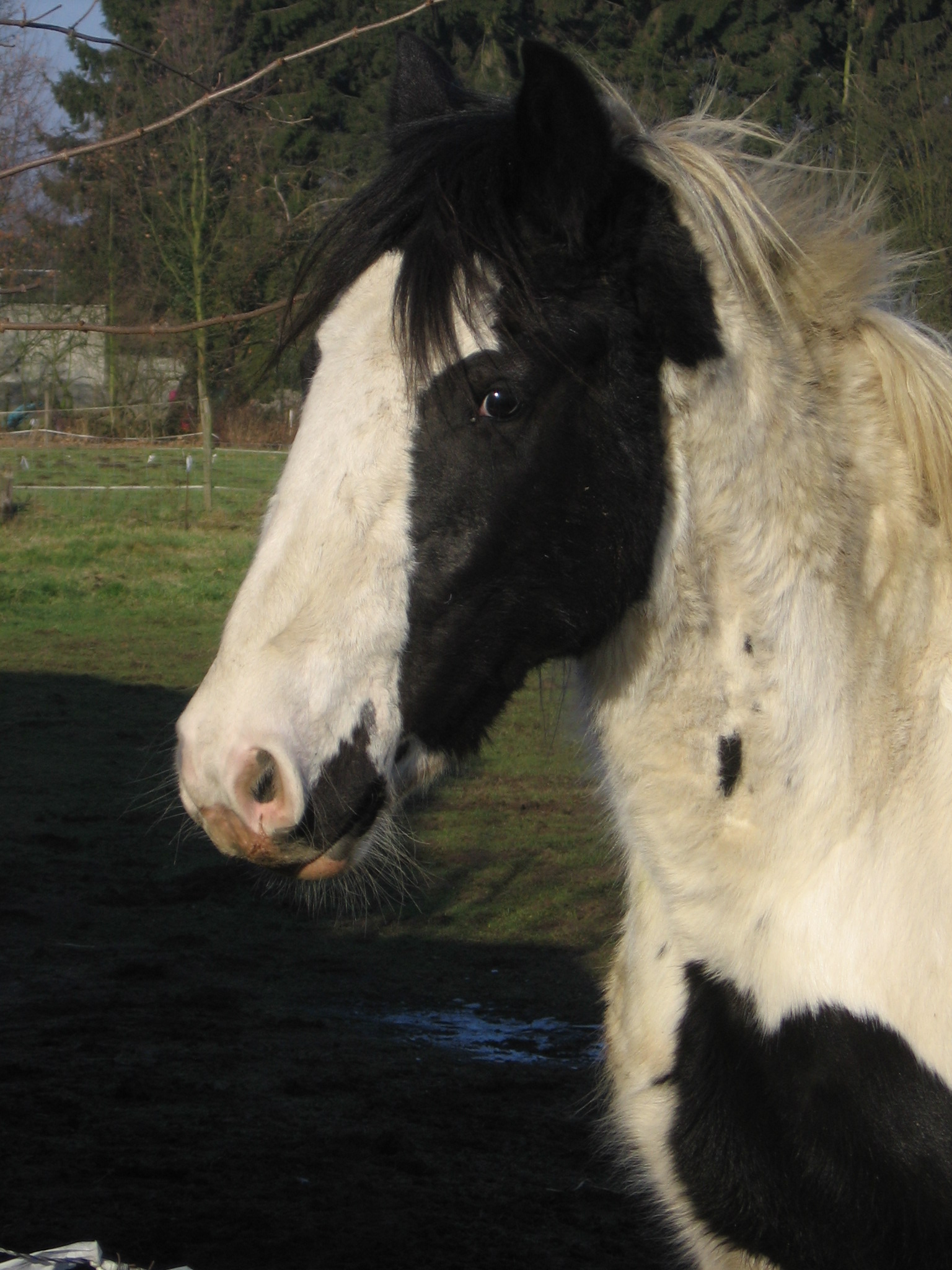 Head of a tinker's horse